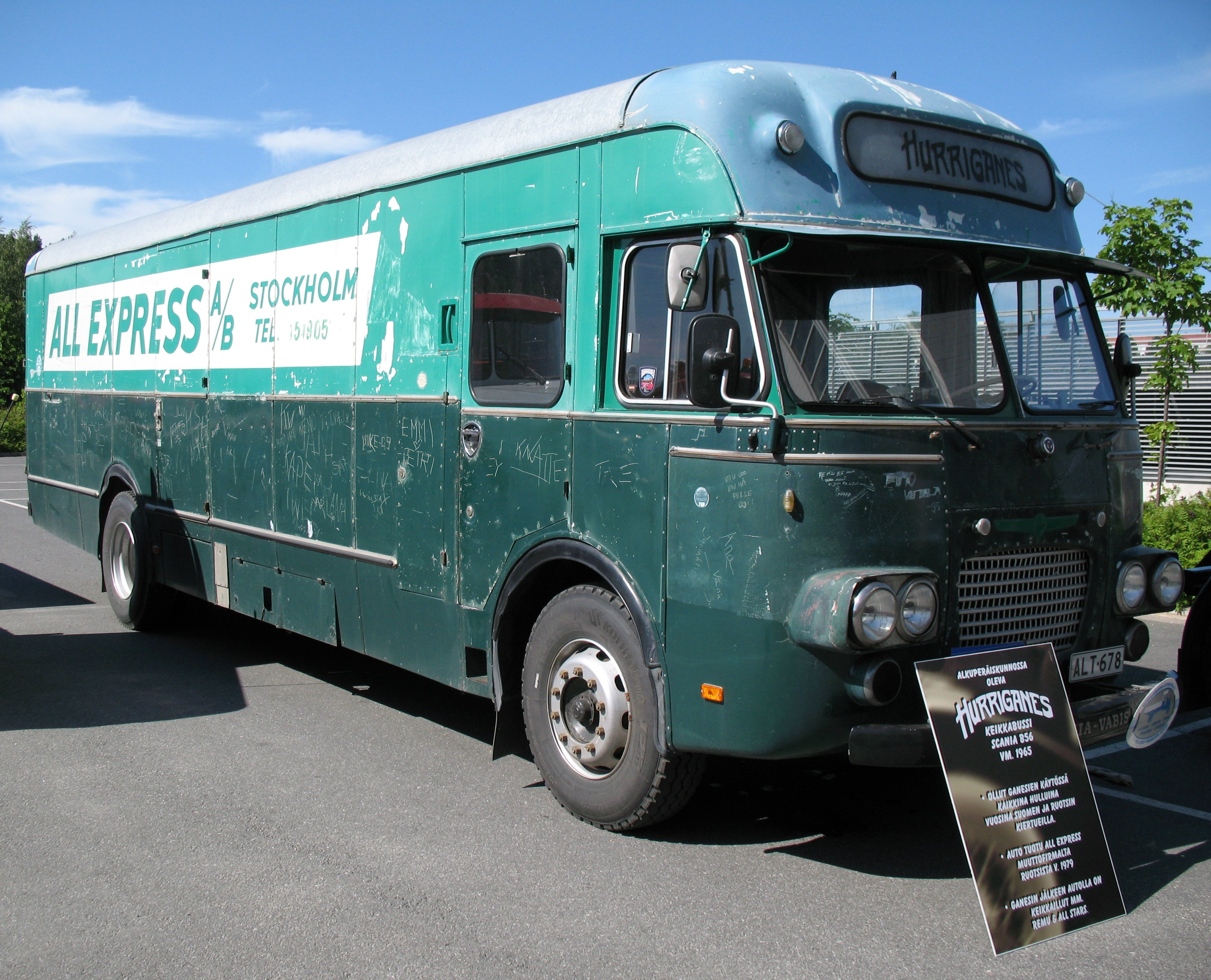 1965 Scania-Vabis B56. Tour bus of finnish rock band Hurriganes.